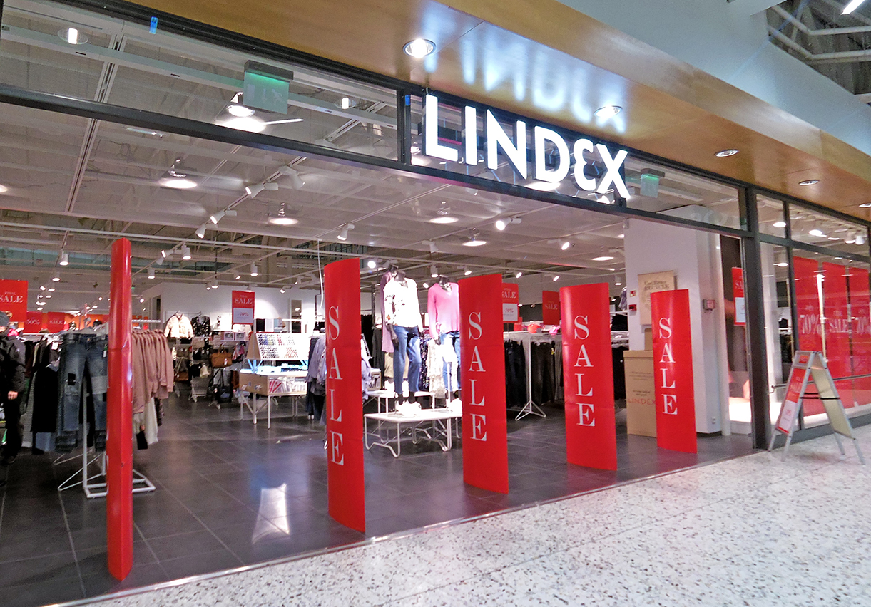 Lindex clothing store in Palokka, Jyväskylä.